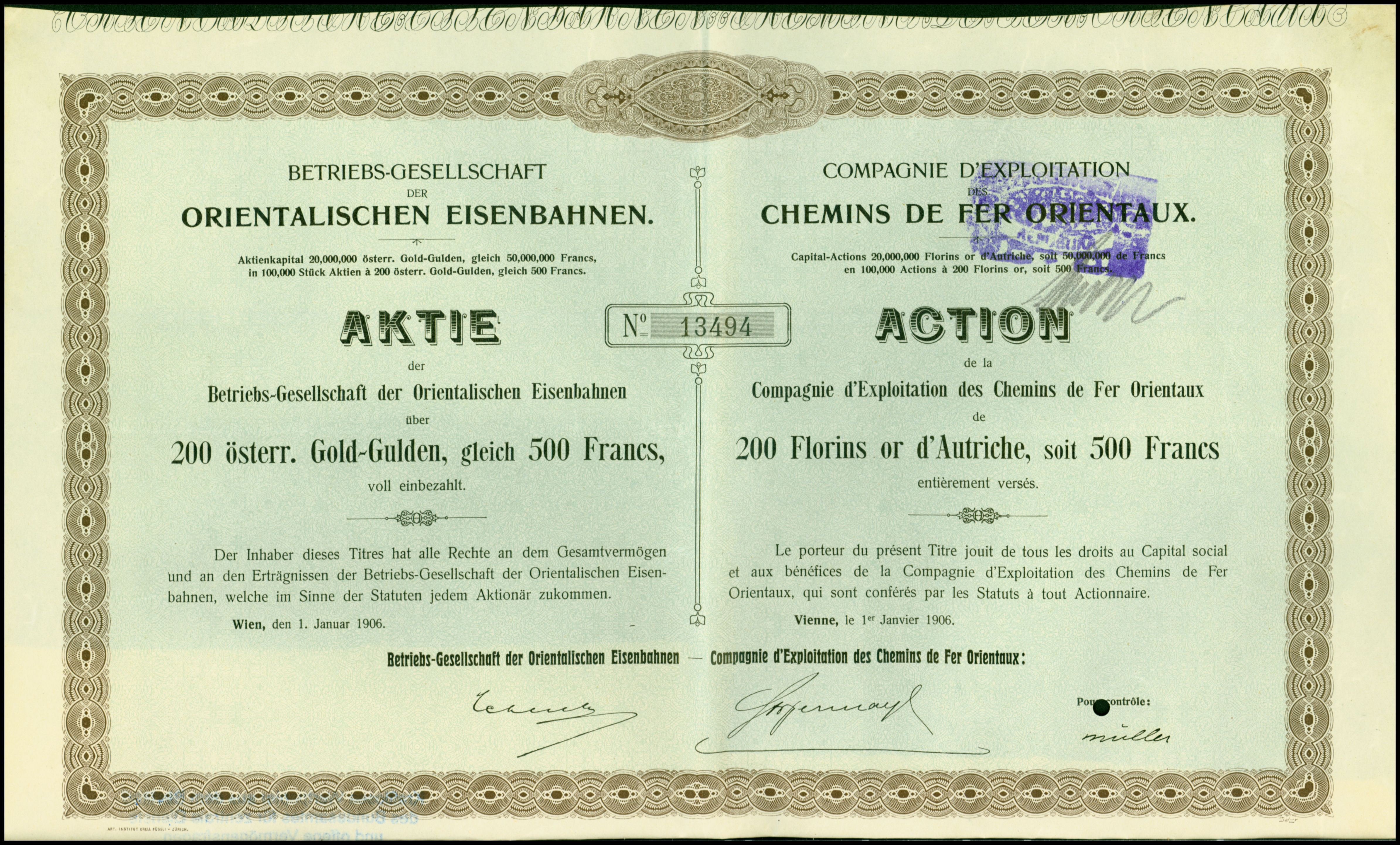 Share of the Compagnie d'exploitation des chemins de fer Orientaux, issued 1. January 1906